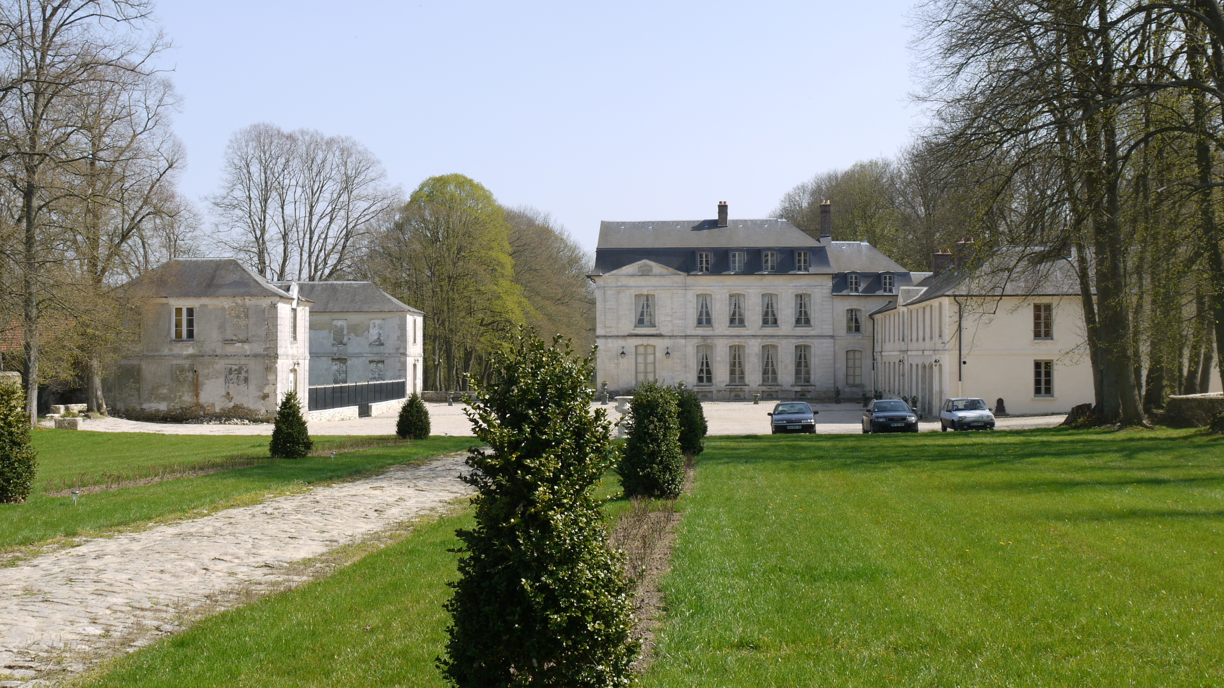 chateau de Maudétour, Maudétour en Vexin, Val d'Oise, France